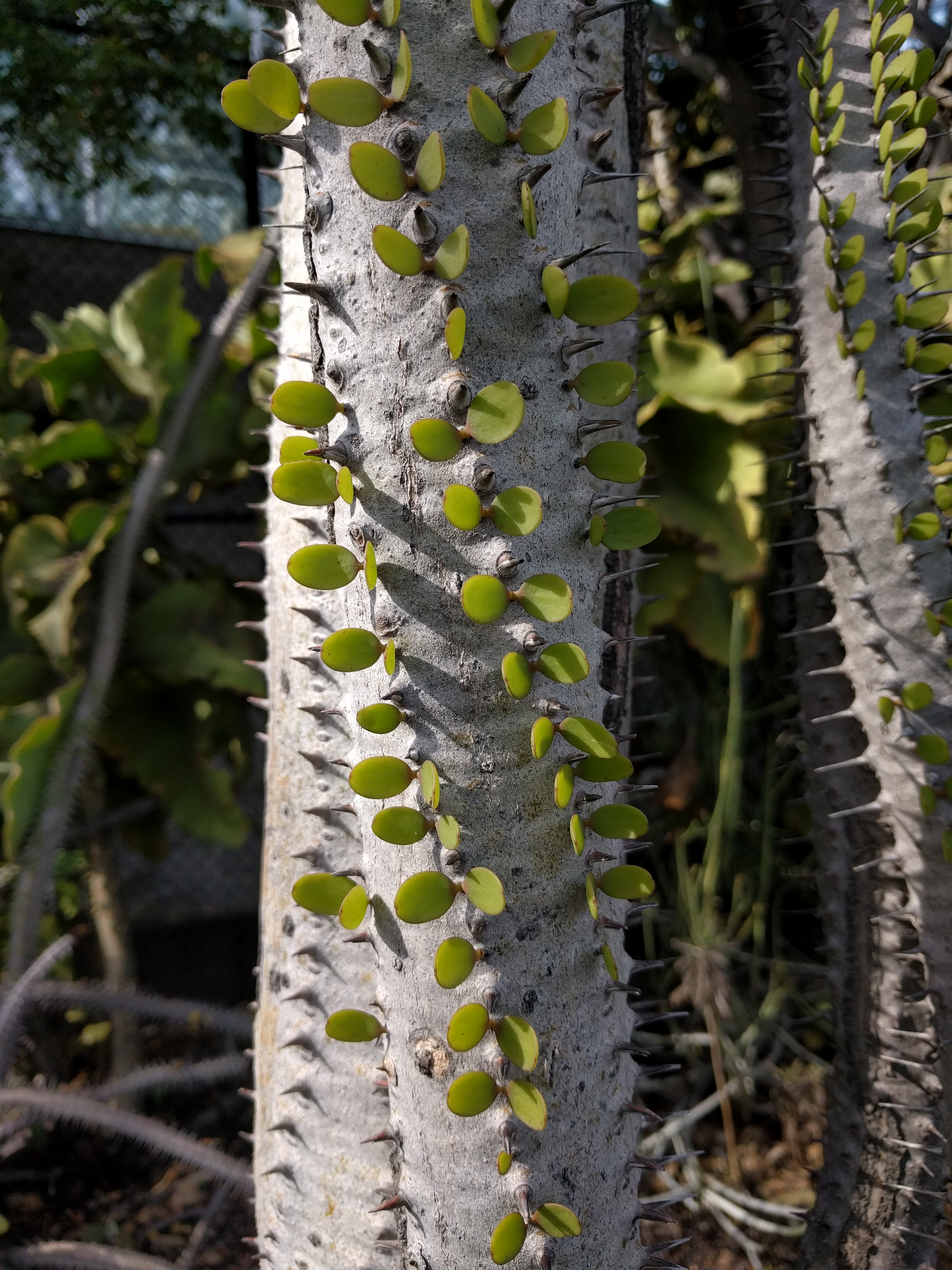 Alluaudia procera closeup of stem and leaves. Mildred E. Mathias Botanical Garden, UCLA, California.